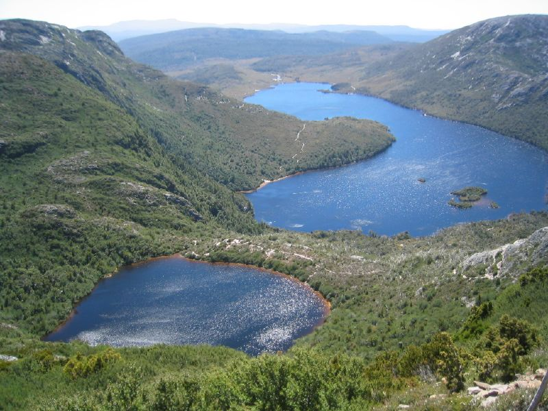 From the "Face Track", on the face of Cradle Mountain. Spectacularrrr